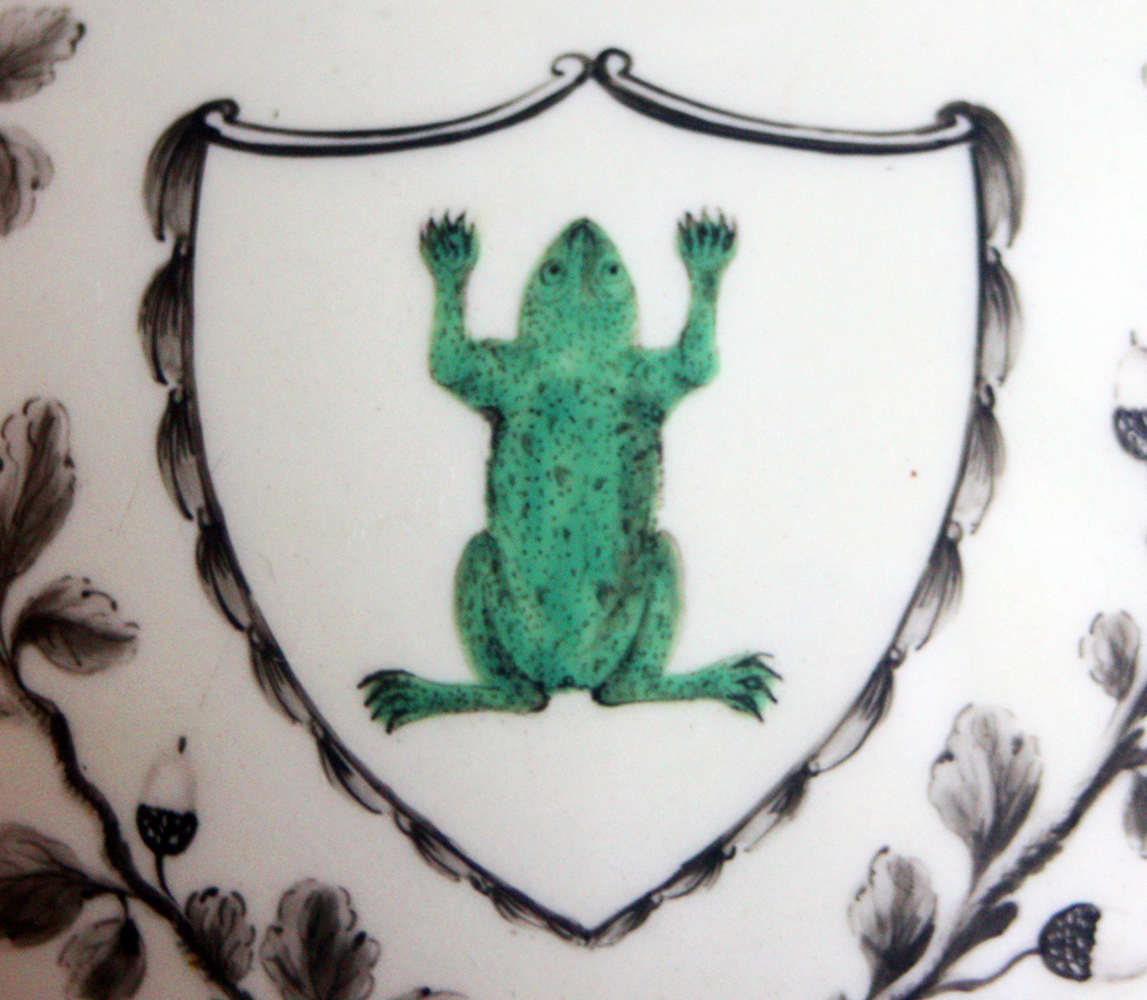 A symbol of the Frog Service by Wedgwood.